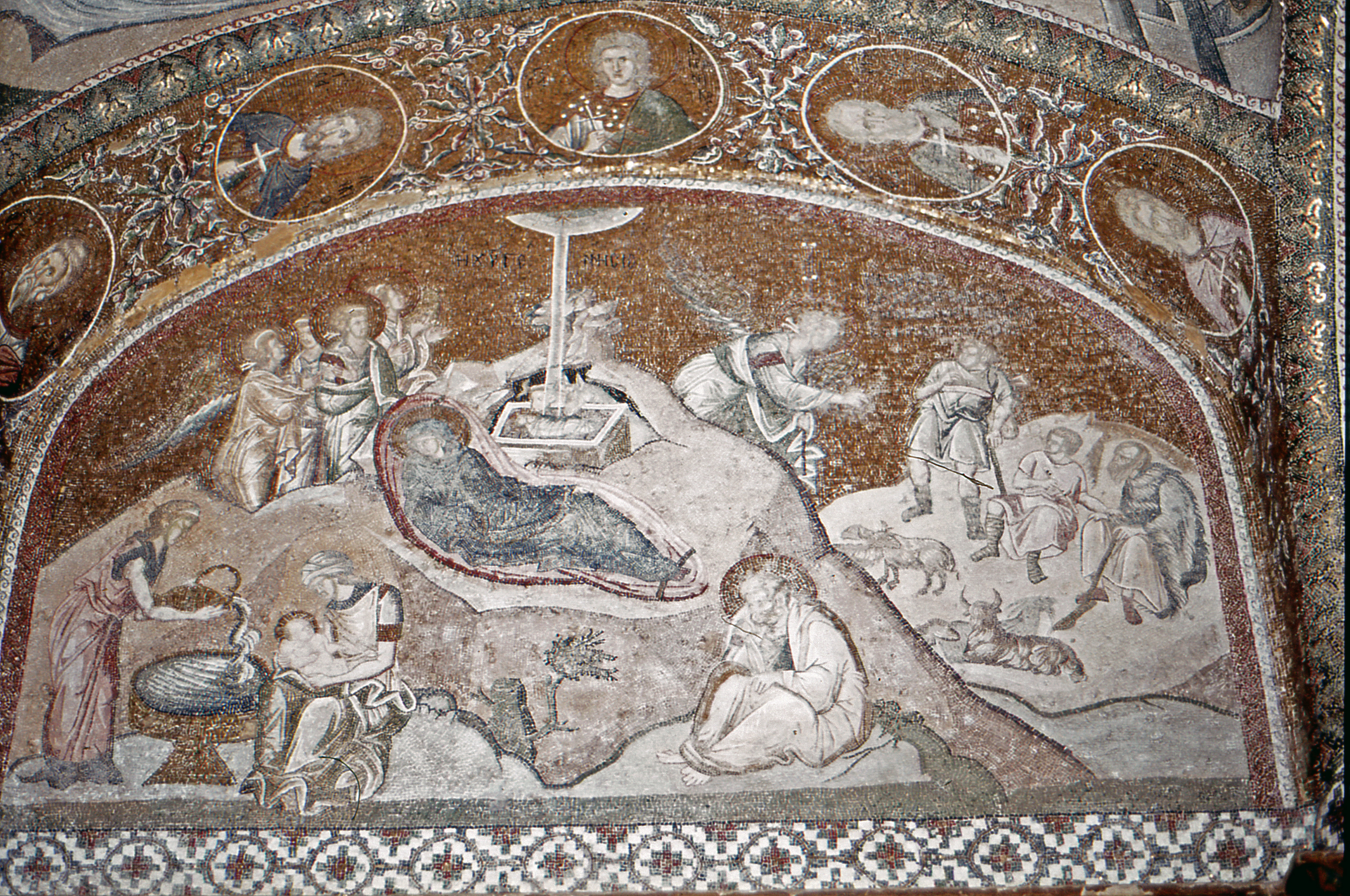 The Nativity.